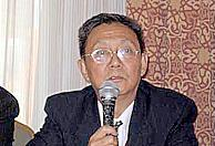 Ren Wanding